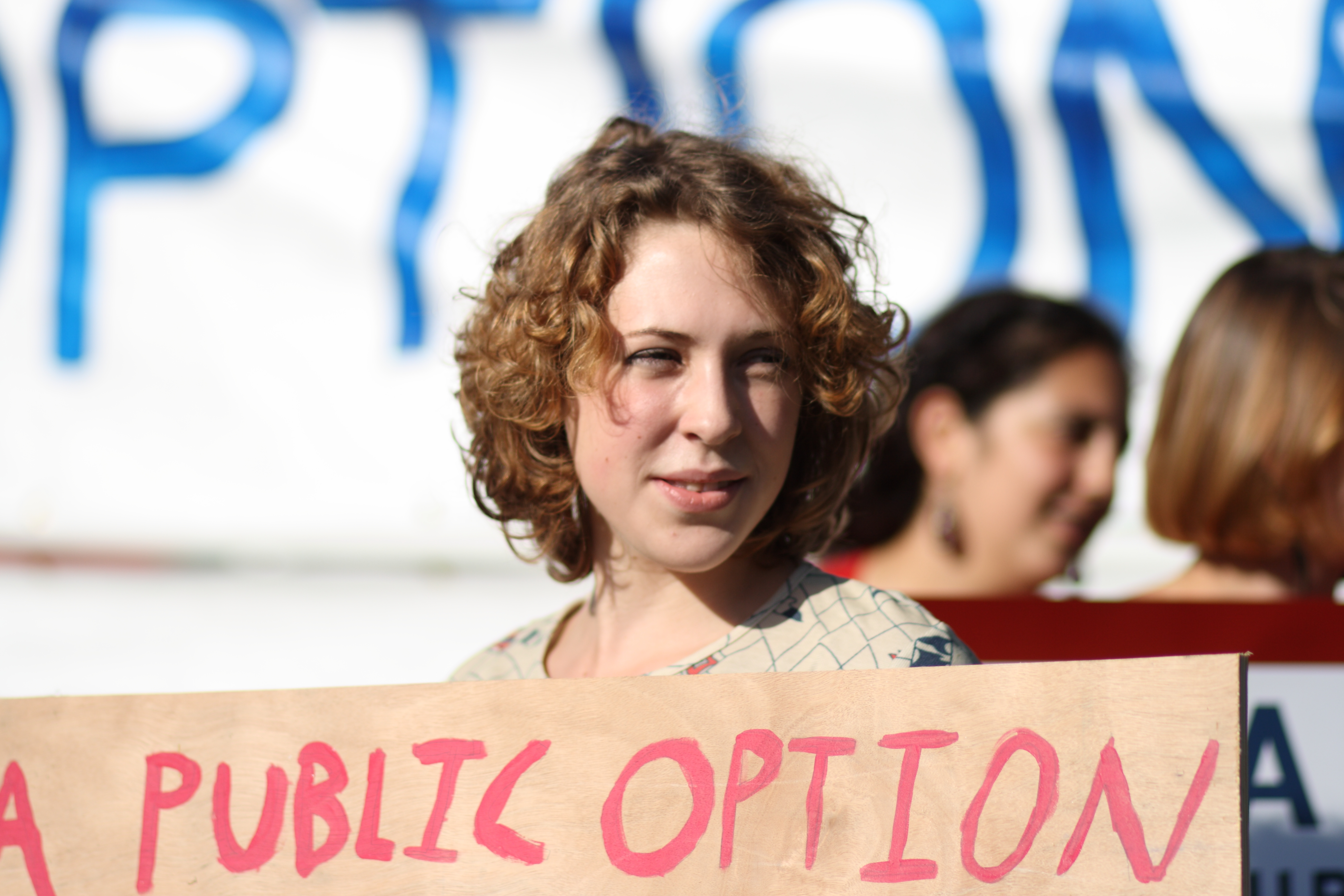 Young woman with a sign, the top of which reads "A PUBLIC OPTION", outside the West Hartford, Connecticut town hall before a health care reform town hall meeting with U.S. Representative John B. Larson on 2 September 2009